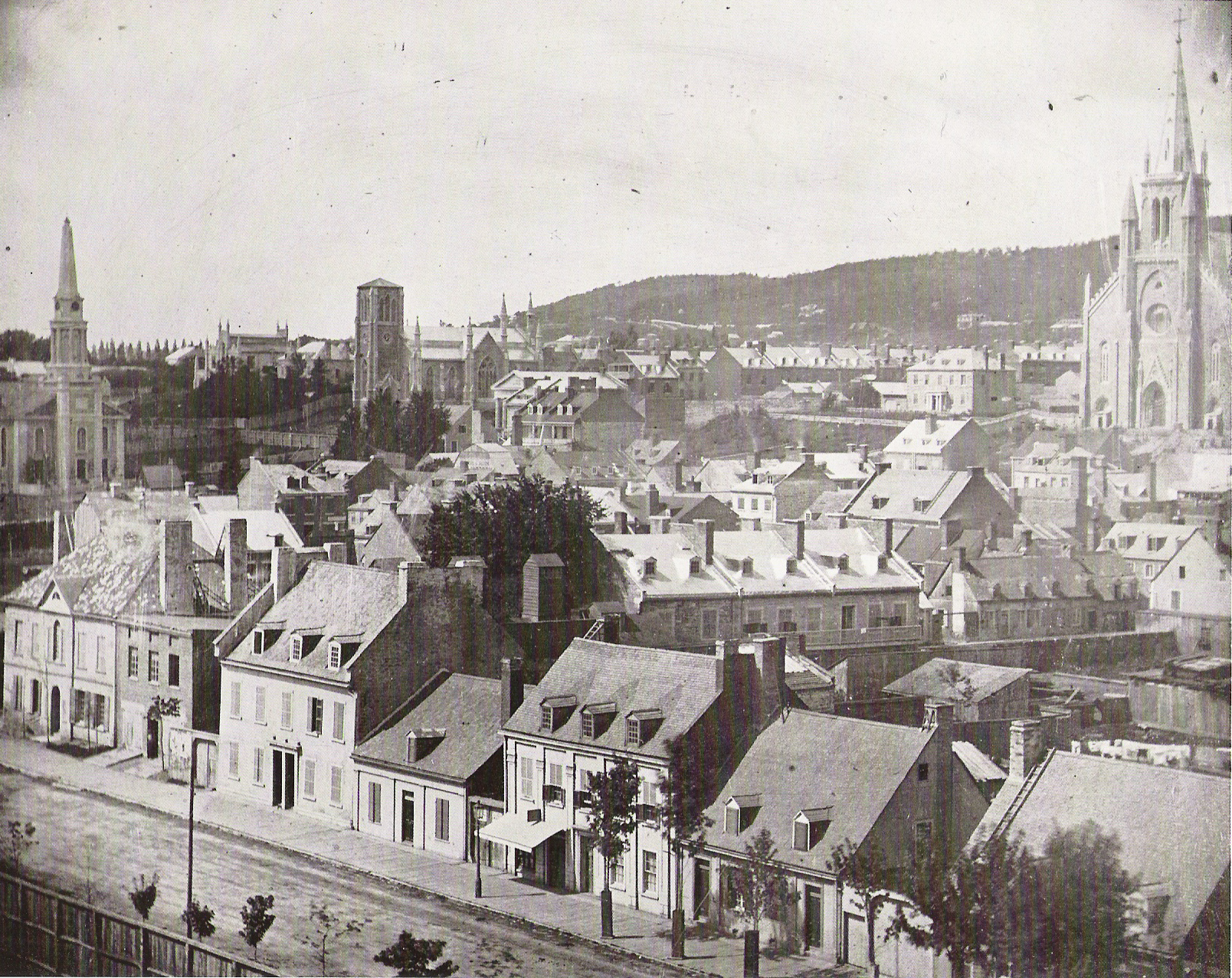 View of Beaver Hall Hill, with Craig Street in the foreground. On the left, one can see the Church of the Sion des Congrégationistes; in the centre, St. Andrews Church, completed in 1851; and on the upper right, the front facade of St Patrick's Church, opened in 1847, and now a minor basilica - Lower Canada. Montreal, Canada.